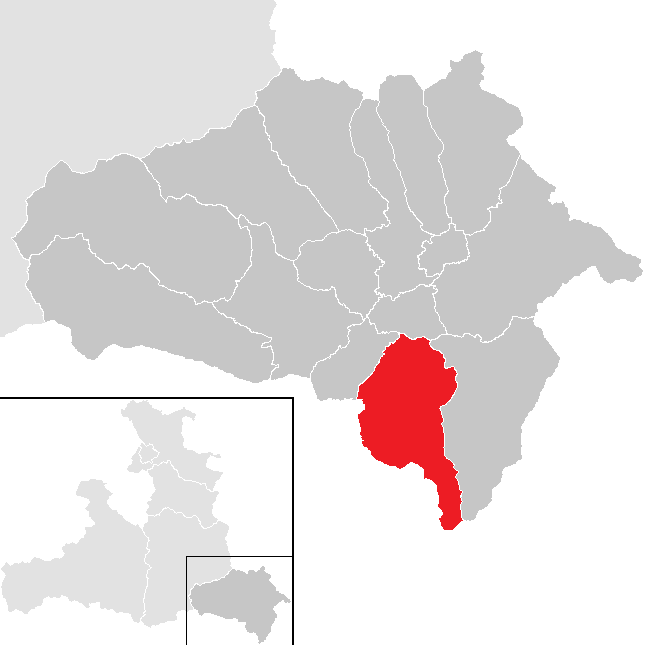 District Tamsweg